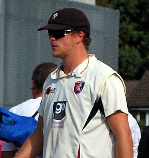 Sam Northeast whilst captaining Kent at the Kent County Cricket Ground, Beckenham in September 2016